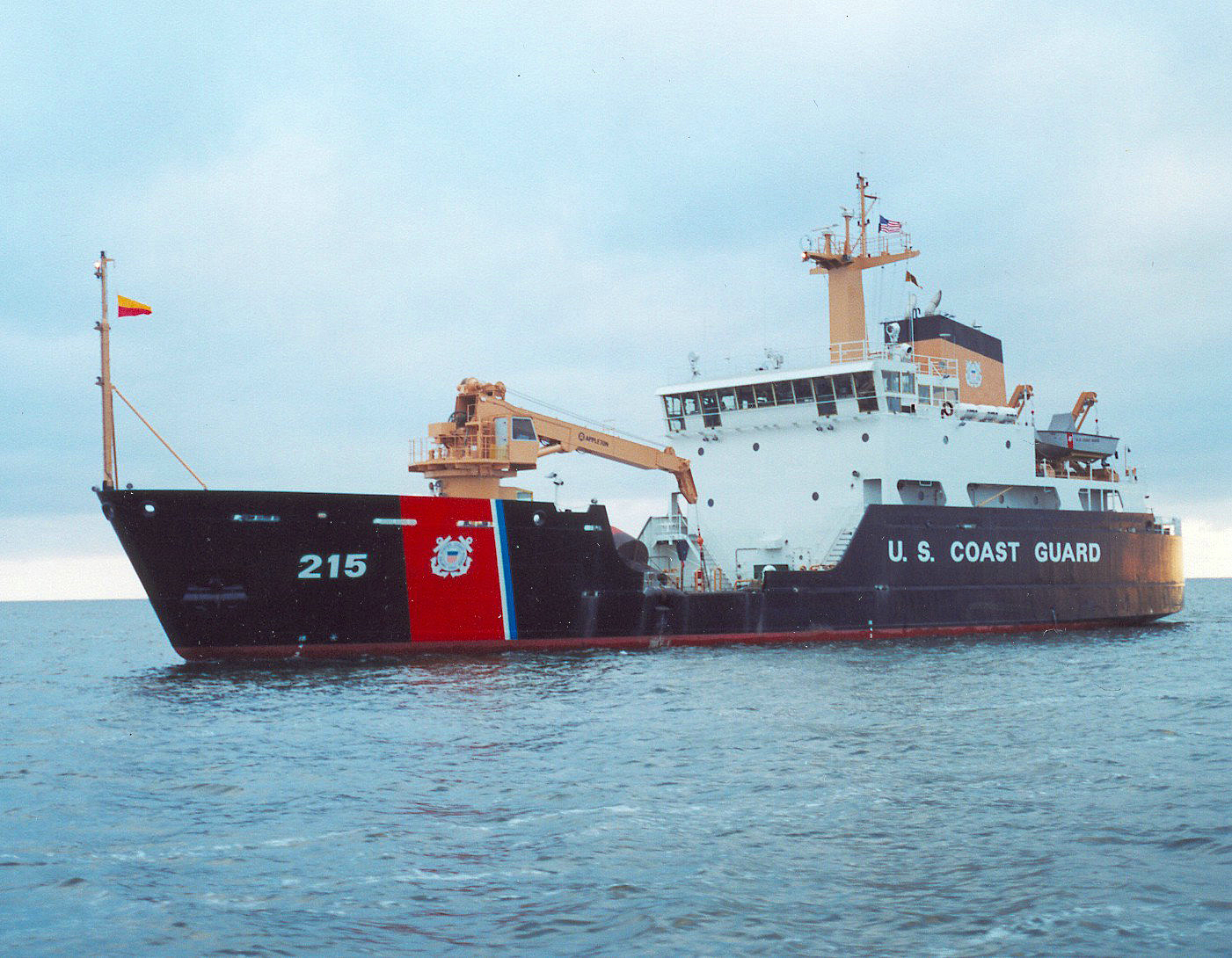 USCGC SEQUOIA (WLB 215) a Guam-based United States Coast Guard seagoing buoy tender